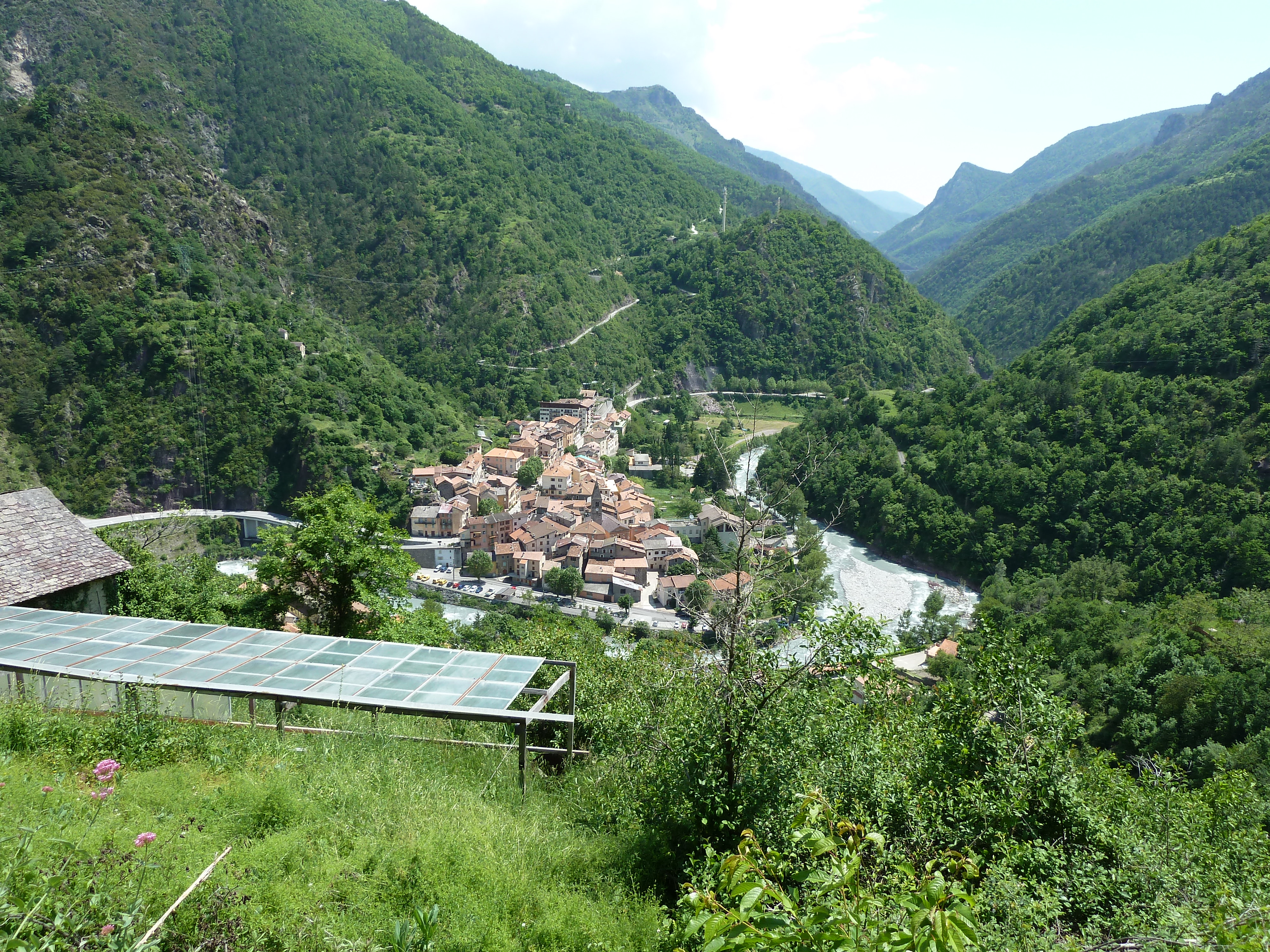 Little village nestled in an narrow valley